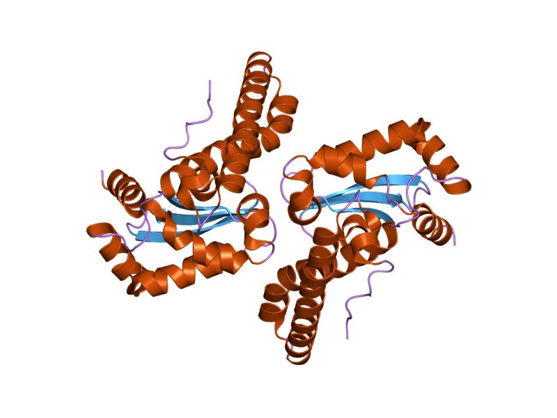 Cartoon representation of the molecular structure of protein registered with 1n0j code.